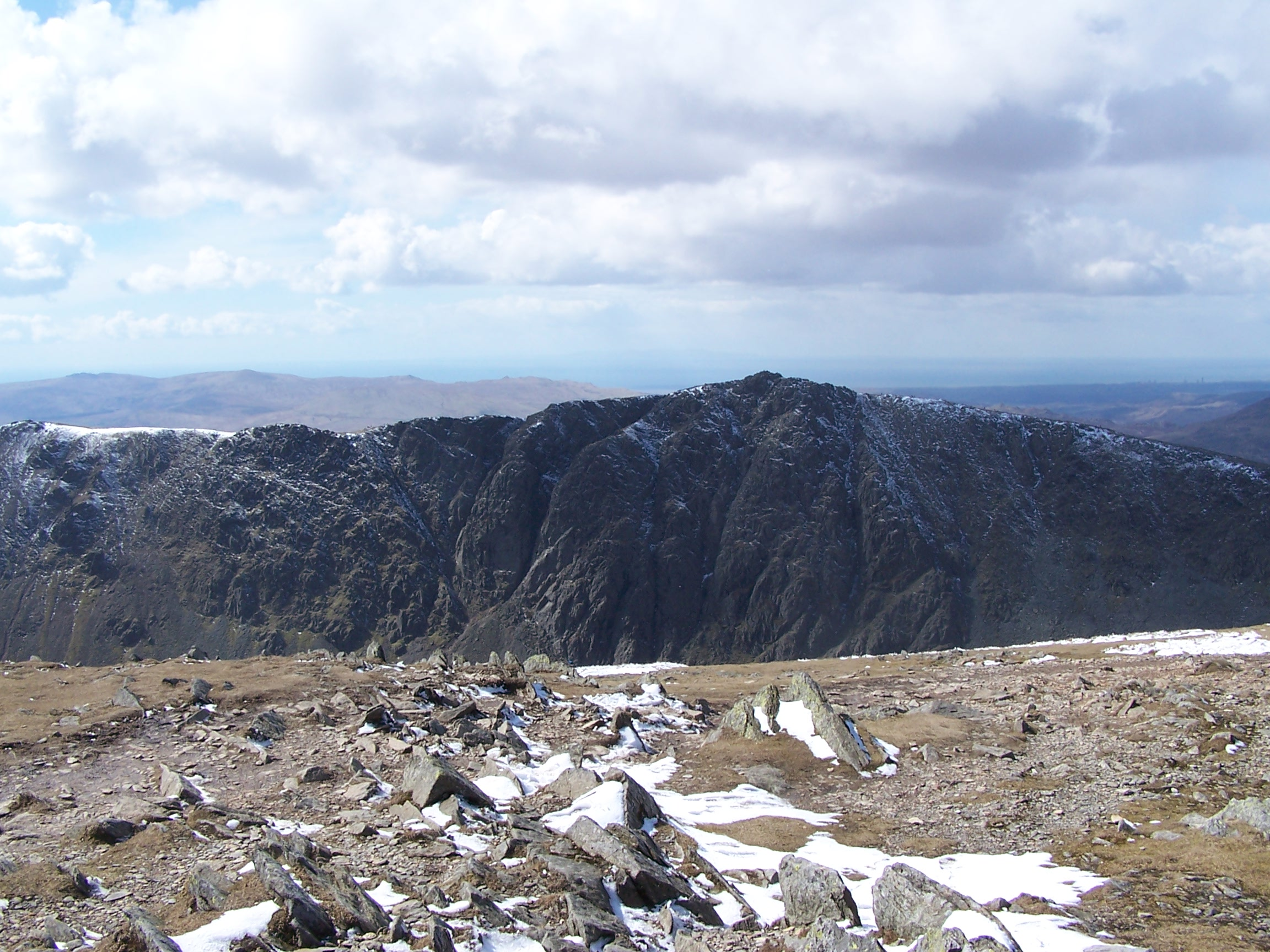 Dow Crag from the Old Man of Coniston summit. This side of Dow Crag is pretty much a collection of sheer gullies that plunge about 200m down to Goats water below.